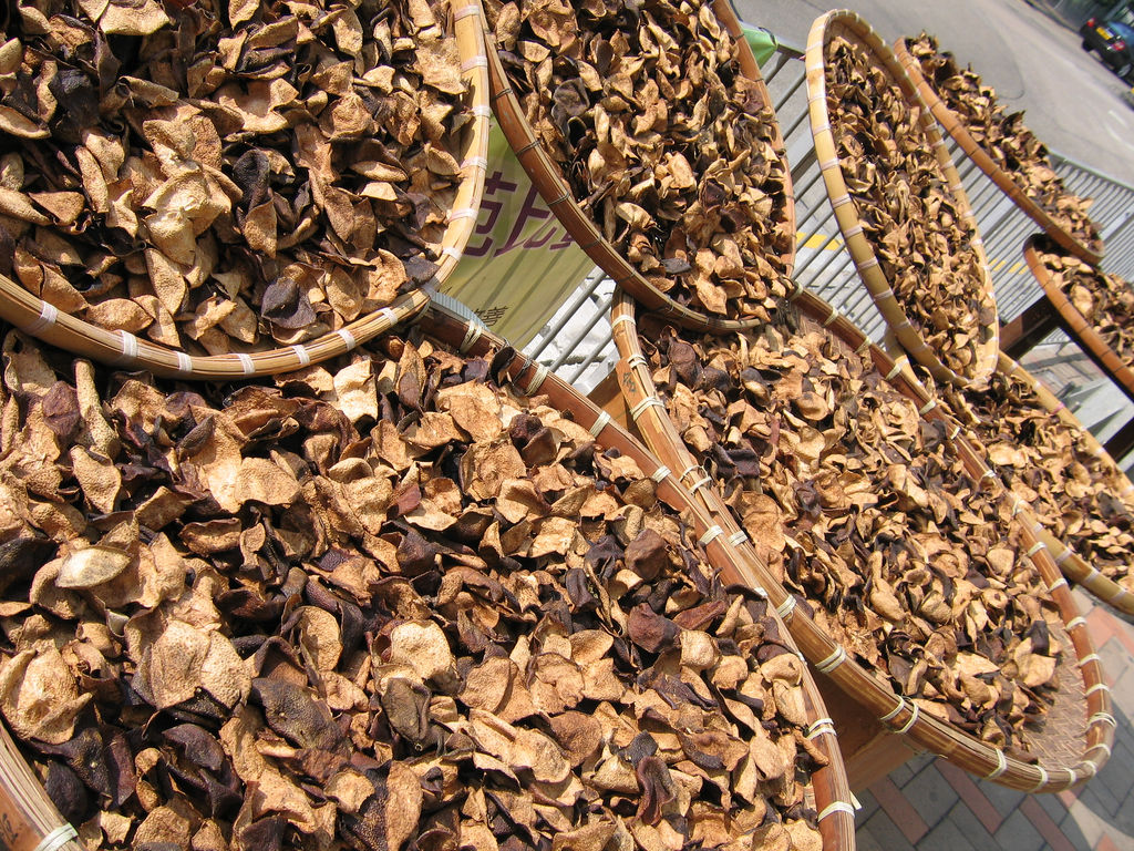 Chenpi (陳皮), preserved tangerine or mandarin orange peels) being dried in the sun on shallow baskets/trays in Hong Kong. Photo taken along a busy street in Hong Kong, with many people that were passing by on the sidewalk. Photo taken with a Canon PowerShot A95 digital camera.